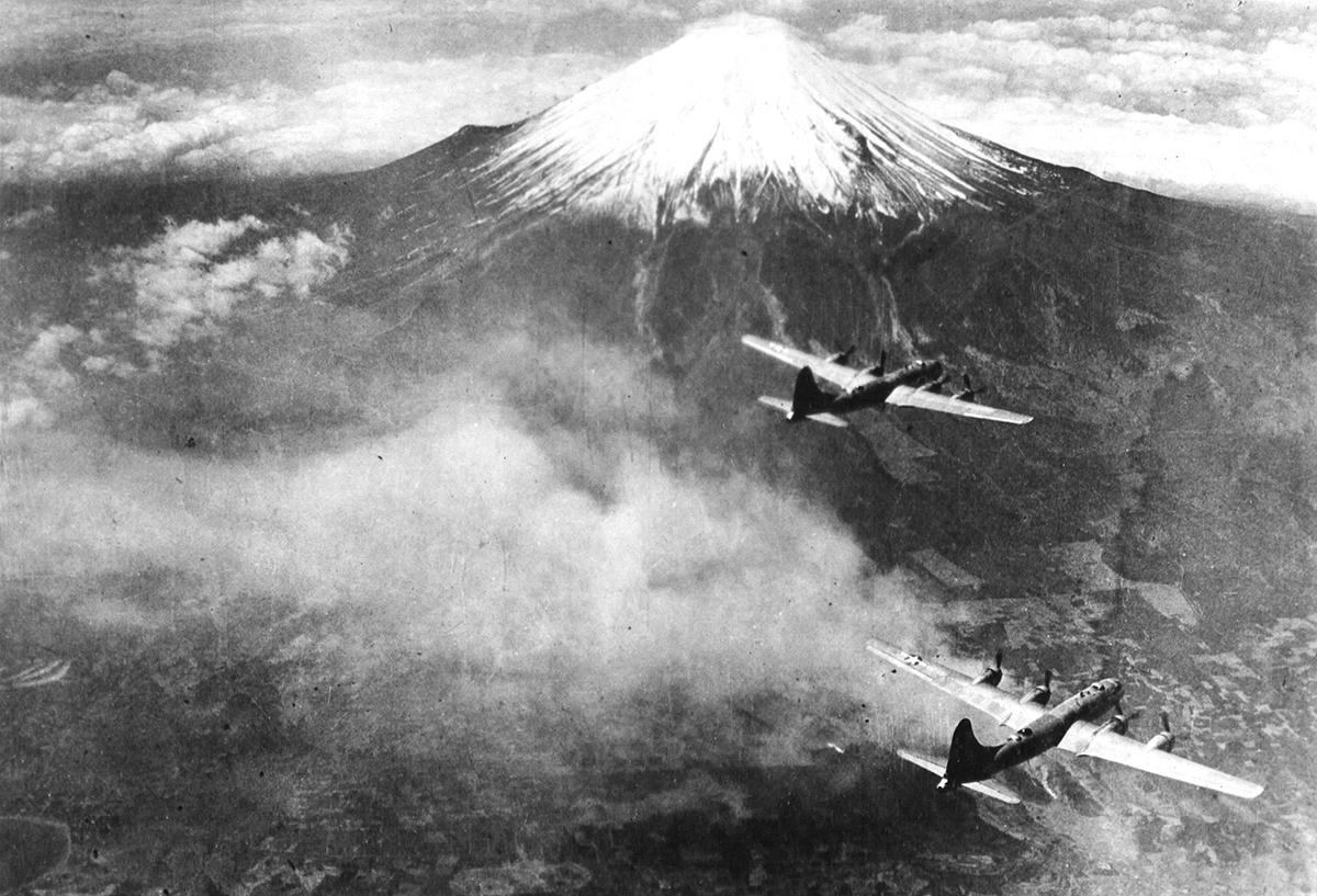 A formation of Boeing B-29 Superfortresses of the 73rd Bomb Wing fly over Mt. Fuji, Japan in 1945